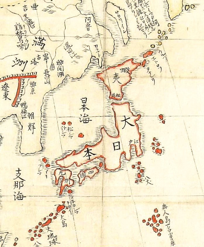 Kai Ichiran Zu map of Japan (1806)